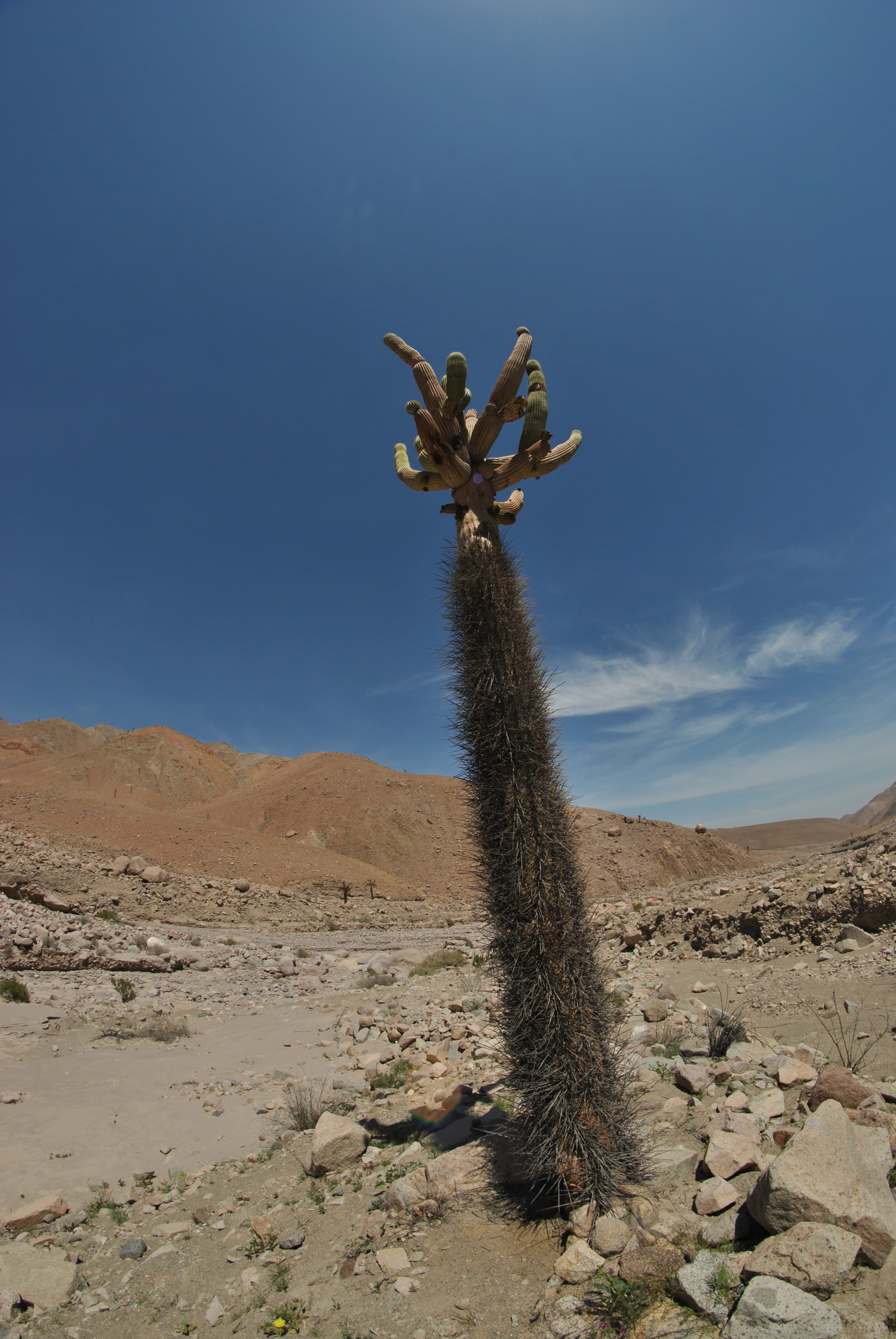 Photographs taken on the slope of the eagle, from Arica region and Parinacota with a fisheye lens.